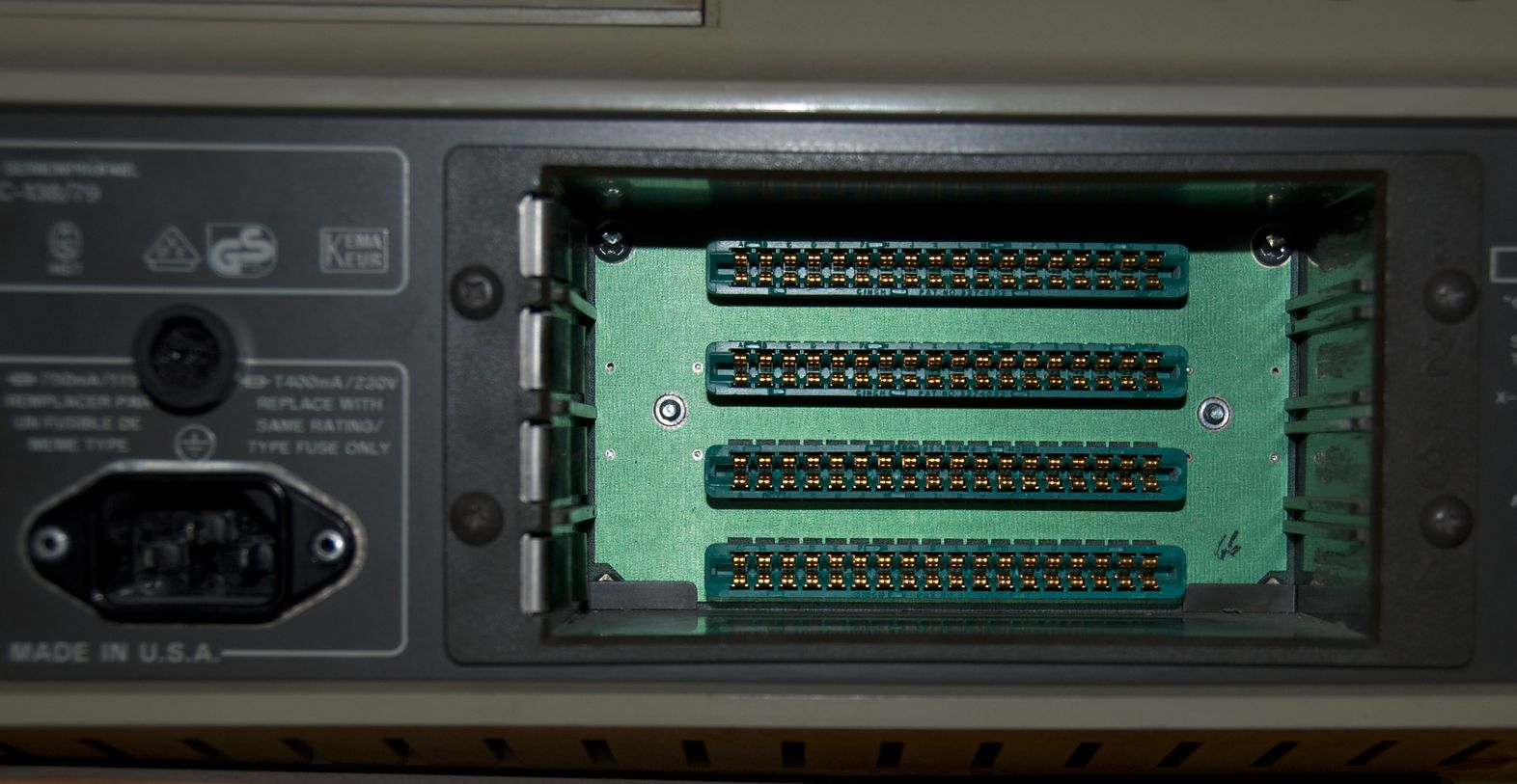 Rear of a Hewlett-Packard 85B desktop computer showing the four slots for hardware extensions.